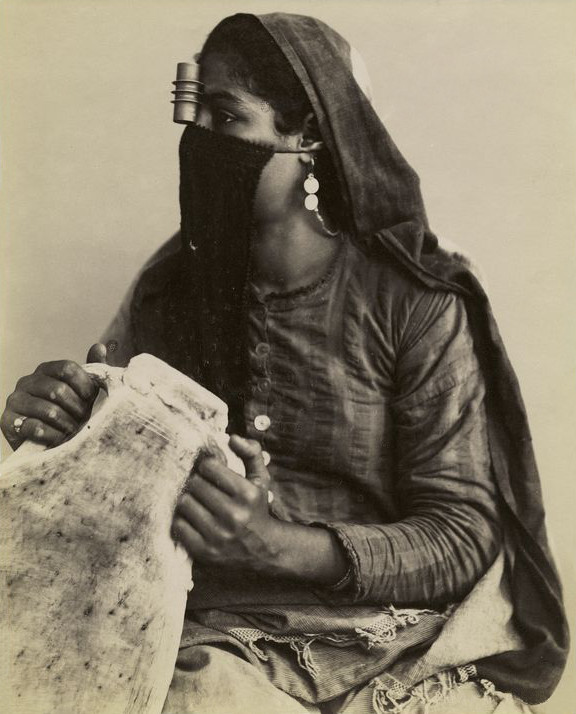 Digital ID: 88416. G. Lekegian & Cie. -- Photographer. 1860s-1920s Source: [Photographs and prints of Egypt and Syria.] (more info) Repository: The New York Public Library. Photography Collection, Miriam and Ira D. Wallach Division of Art, Prints and Photographs. See more information about this image and others at NYPL Digital Gallery. Persistent URL: Rights Info: No known copyright restrictions; may be subject to third party rights (for more information, click here)